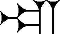 Cuneiform sign URU = RI2, Borger (2003) nr. 71. In the 1350-1330BC Amarna letters, used to identify cities, towns: Sumerogram URU = ālu, for "city", "town".